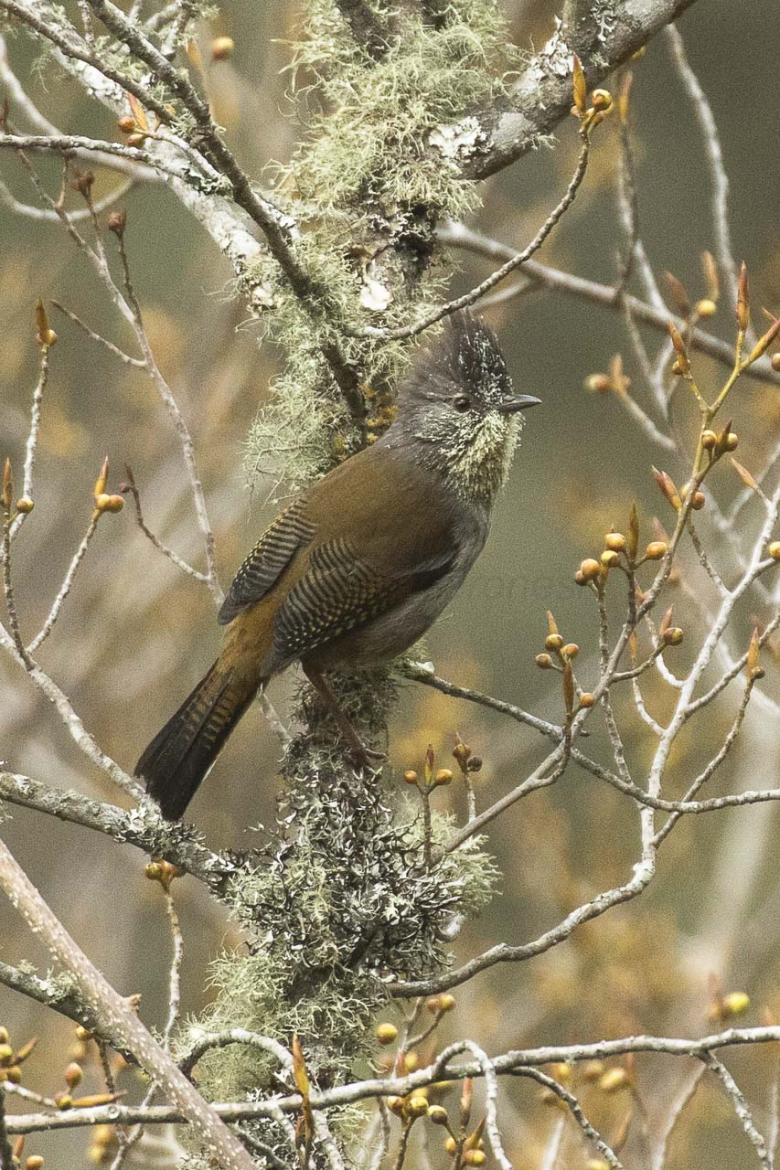 Streak-throated Barwing - Eaglenest - India_FJ0A8216